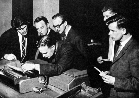 Unilever Corporation’s Scandinavian management course playing a business management game with the Post-Savings Bank’s IBM 650.